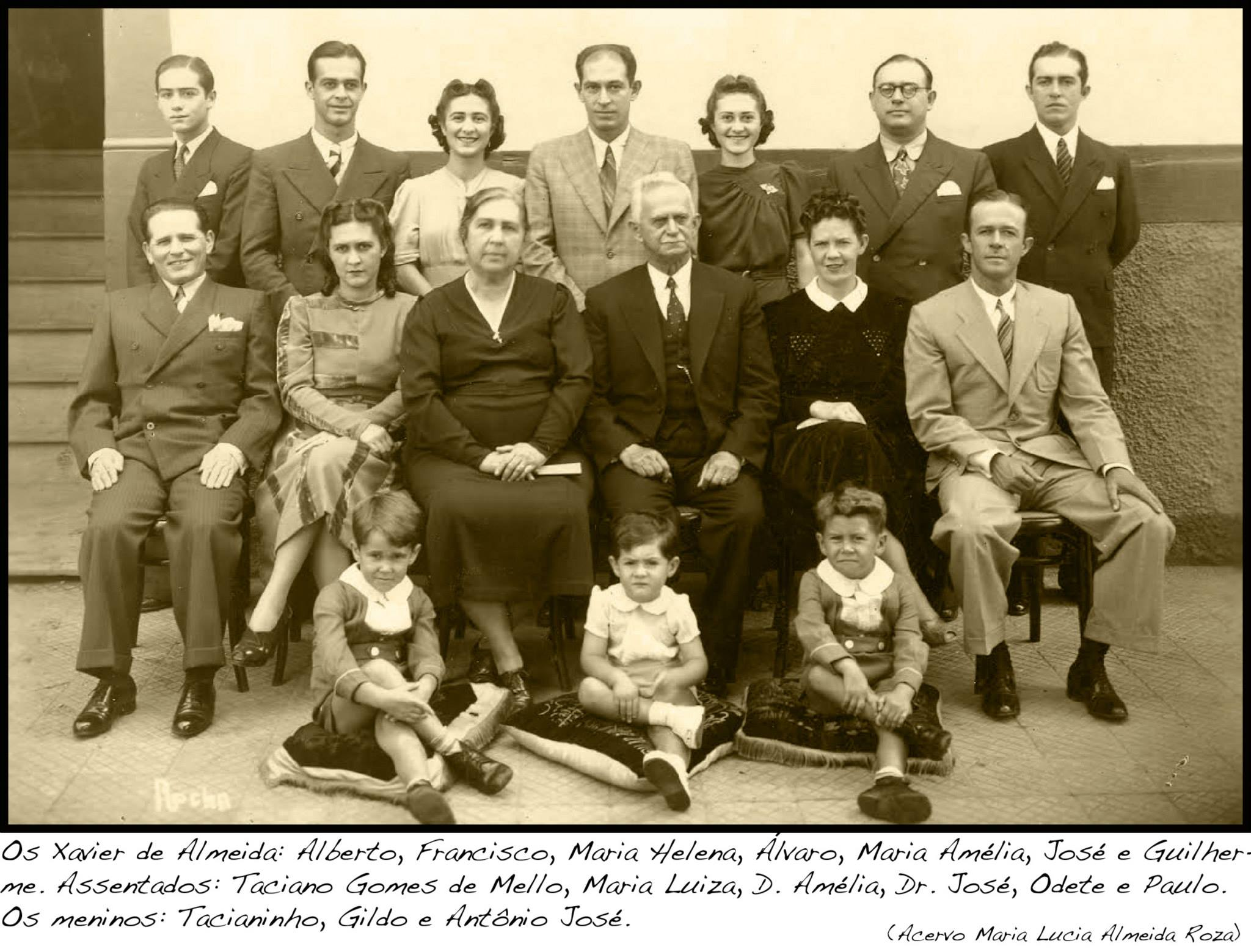 De pé: Alberto, Francisco, Maria Helena, Álvaro, Maria Amélia, José, Guilherme. Sentados: Taciano Gomes de Mello, Maria Luiza Xavier de Almeida, Odete e Paulo No centro, Amélia Lopes de Moraes e José Xavier de Almeida No chão, os netos Taciano Júnior, Antônio José E Hermenegildo Xavier